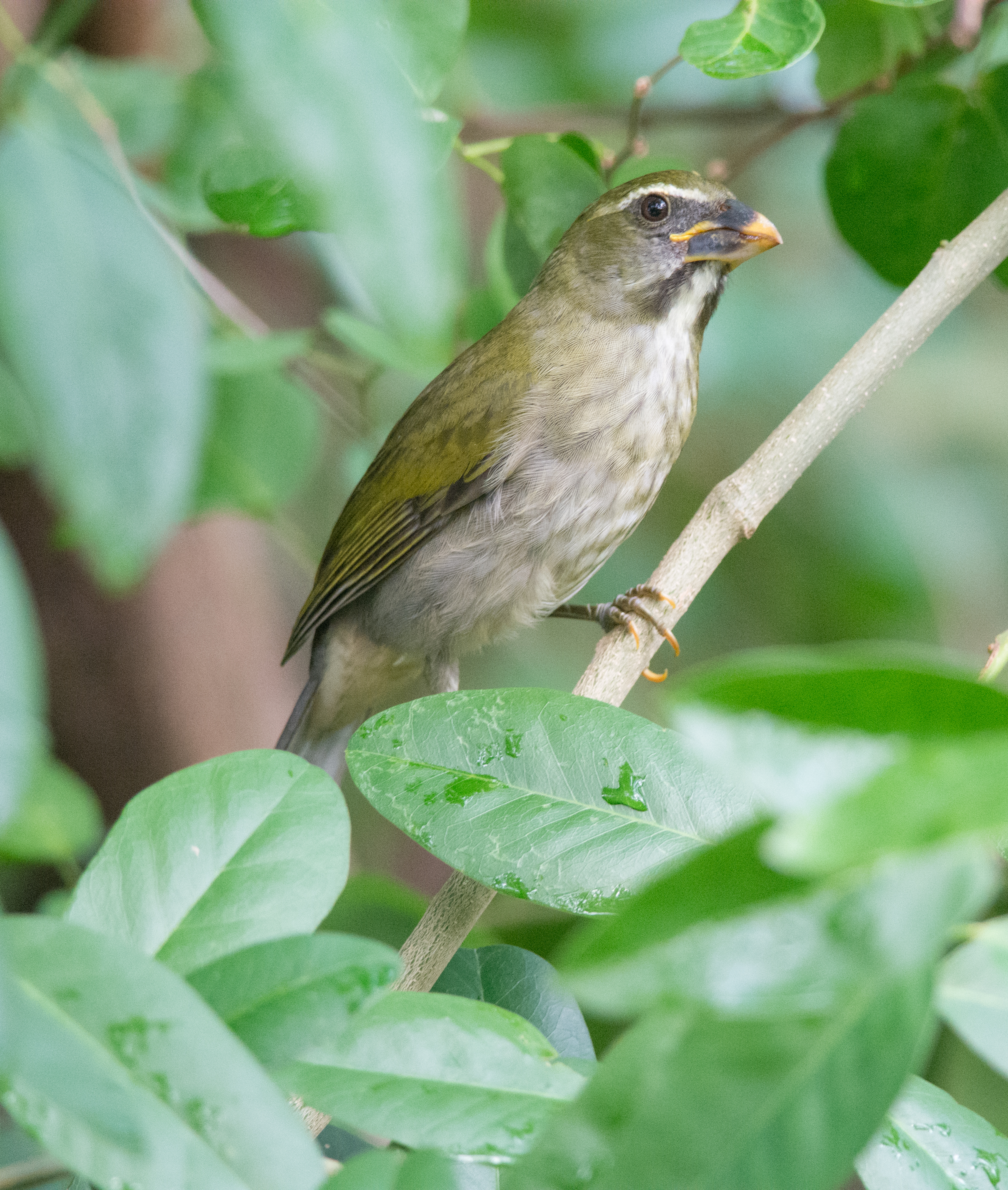 Lesser Antillean saltator in a tree